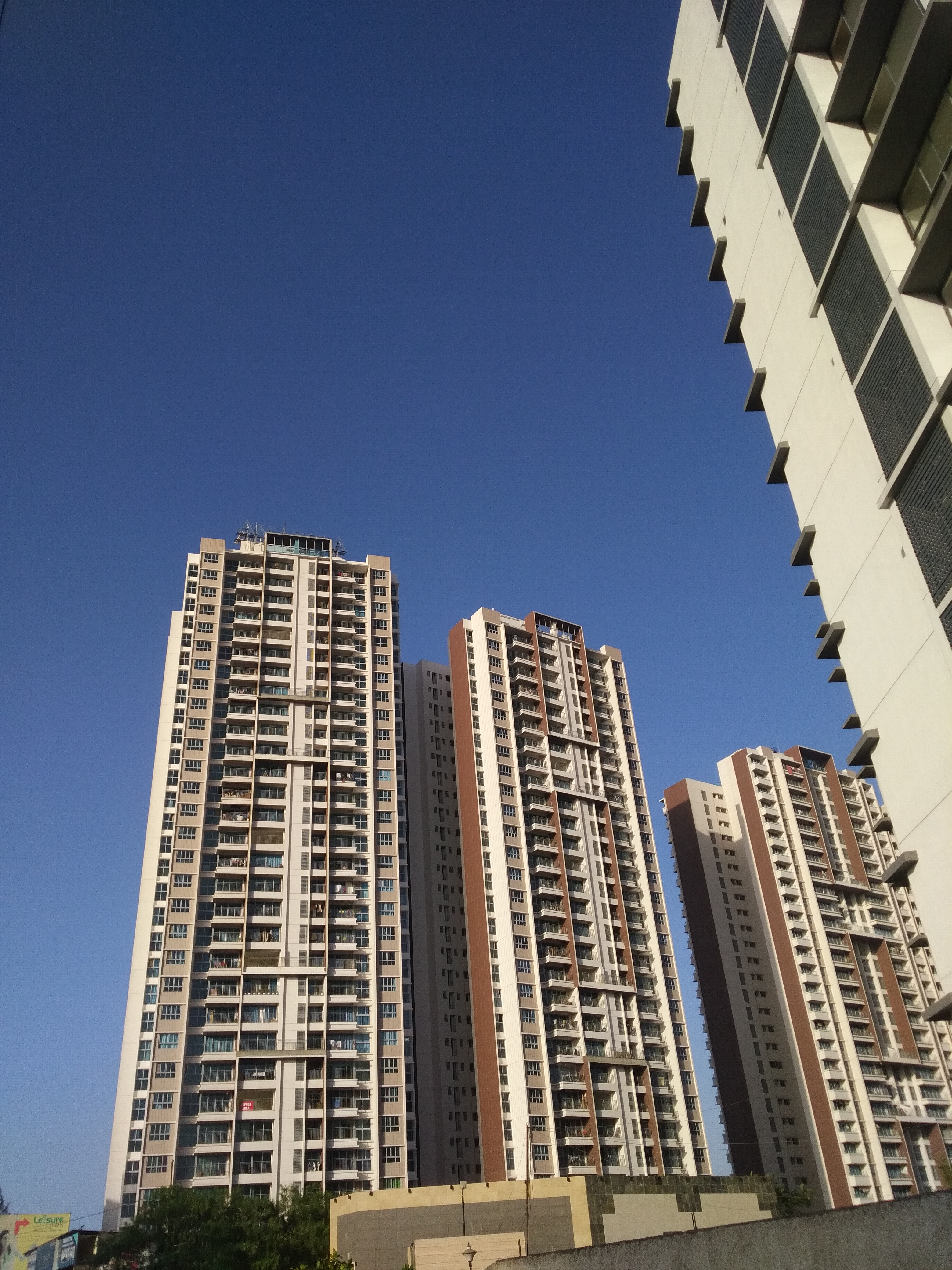 Front view of the Amanora Towers